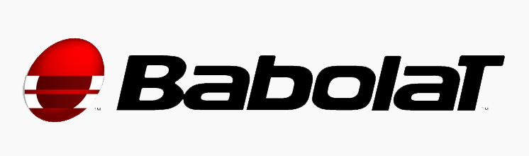 The logo of Babolat